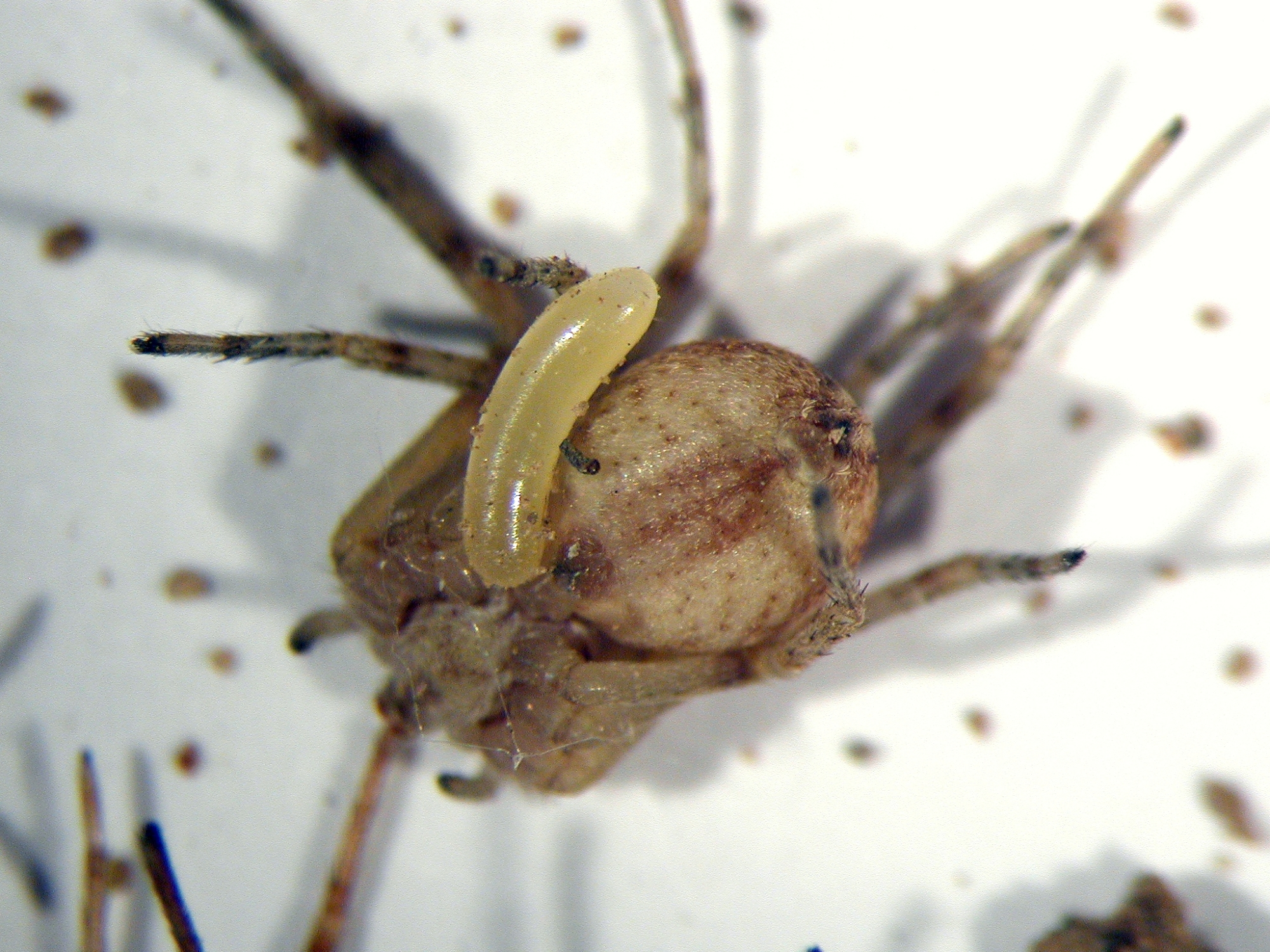 Detailed image of the stock of spiders from a clay nest of Sceliphron curvatum, Wiesbaden, Germany